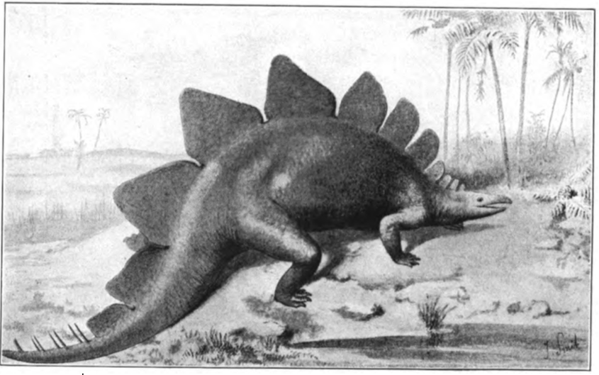 Life restoration of Stegosaurus ungulatus by J. Smit, 1893. After Rv. H.N. Hutchinson.